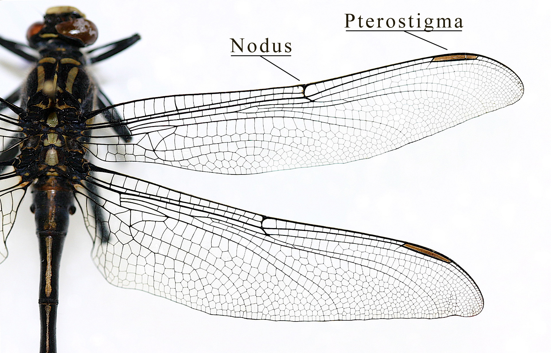 Odonata - Gomphidae wing structure